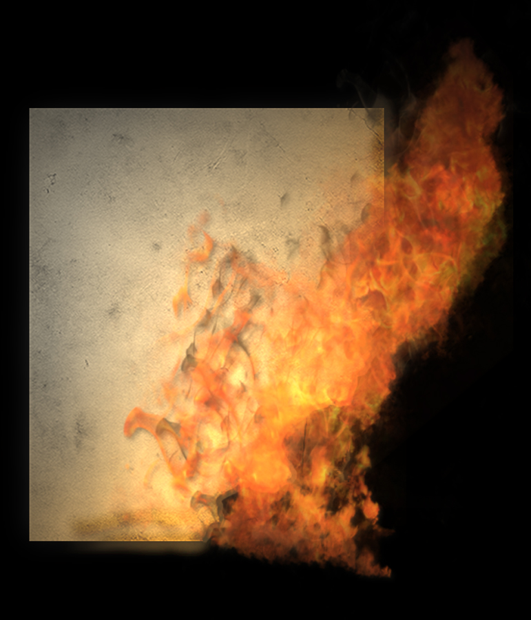 This "Burning Paper" was created in Photoshop CS5.